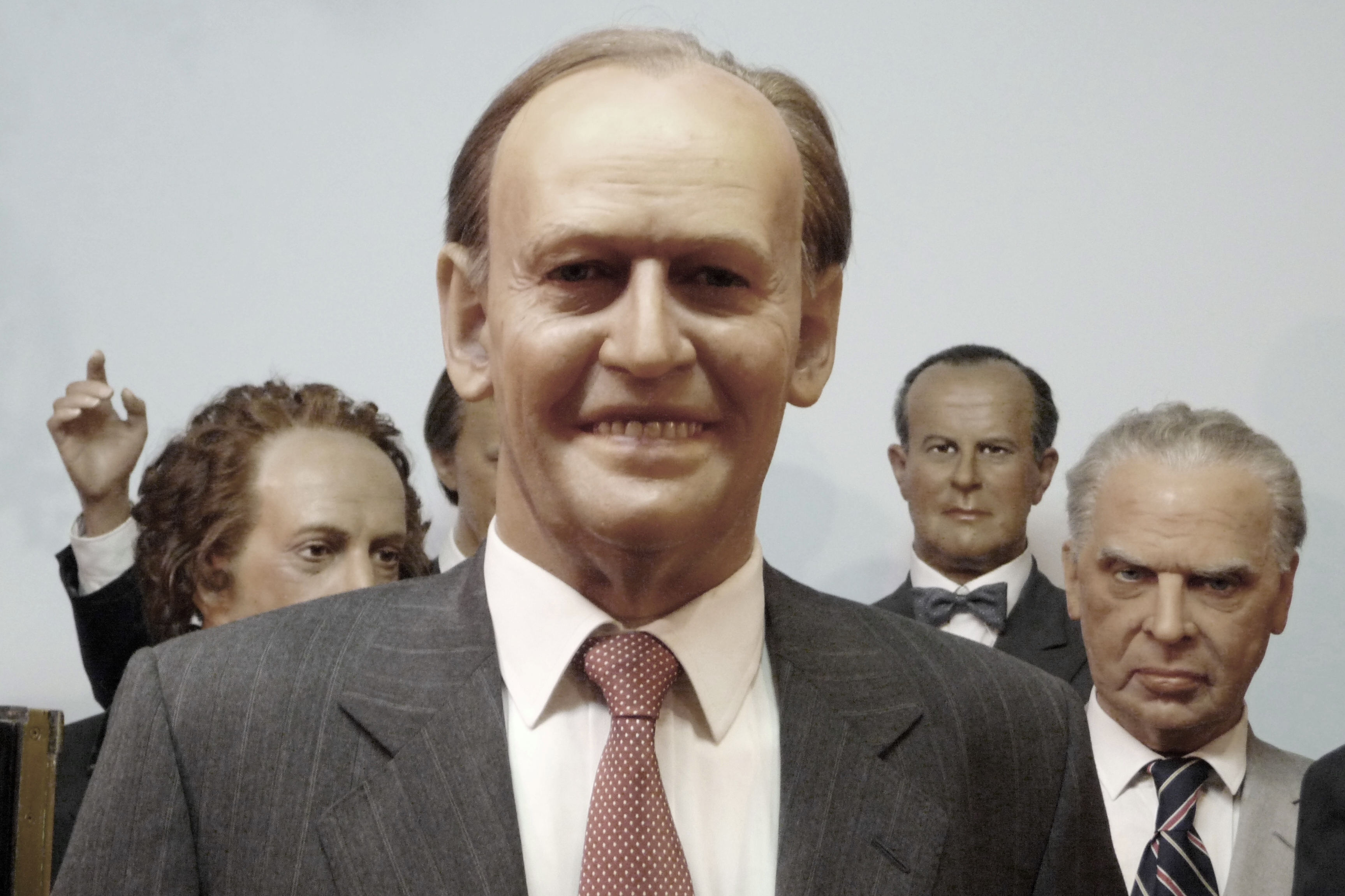 wax figure of Jean Chrétien at Royal London Wax Museum, Victoria, British Columbia, Canada